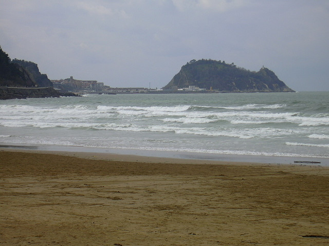 Mount San Anton (Getaria), viewed from Zarautz